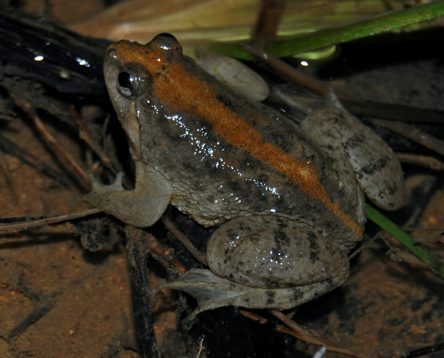 Sumatran Puddle-frog (Occidozyga sumatrana) at paddyfield. From Bogor, West Java, Indonesia.